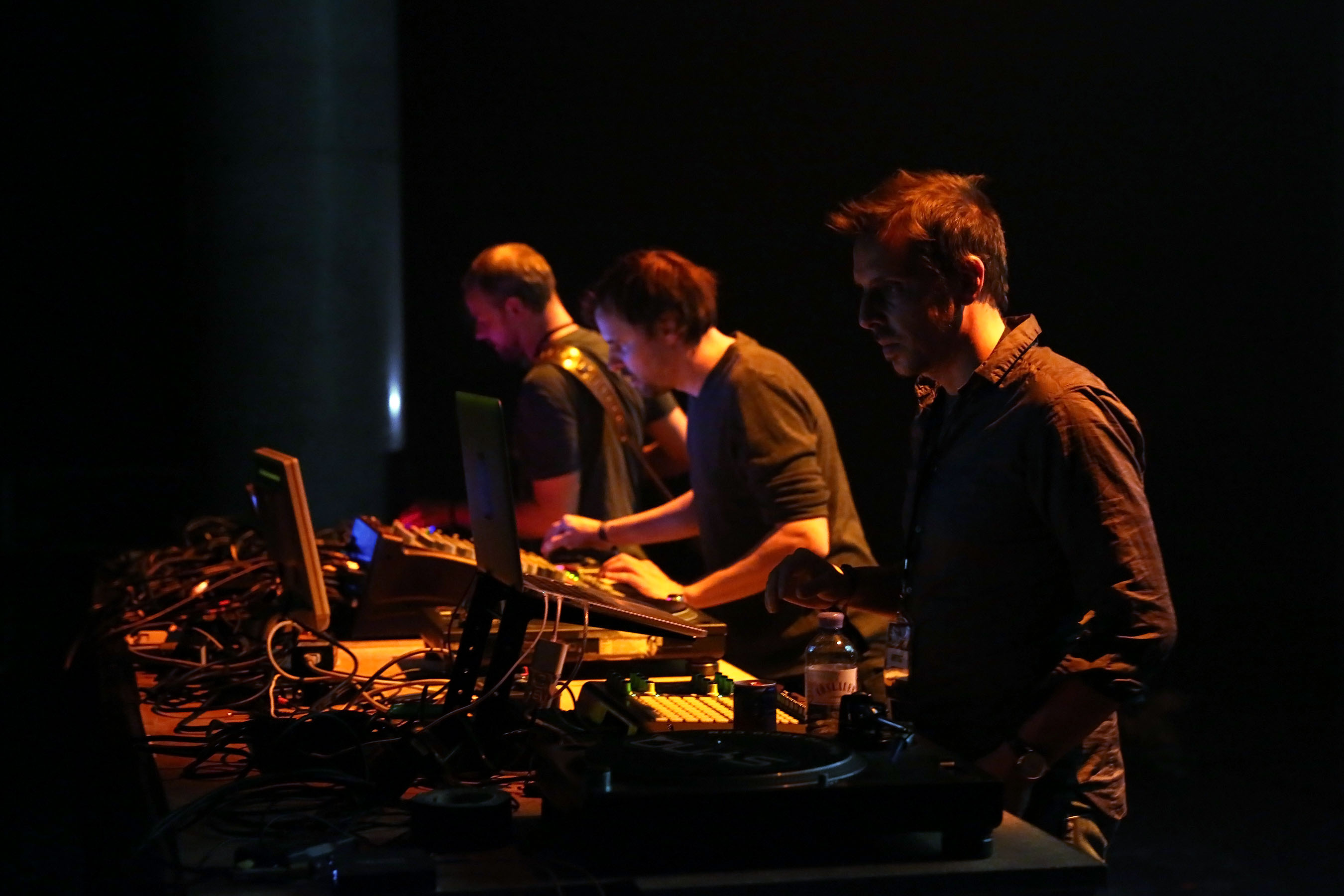 Timo Novotny, Markus Kienzl and Wolfgang Frisch performing live to Novotny's film Trains of Thoughts at Odeon theater during Waves Vienna Music Festival & Conference 2013 in Vienna, Austria.